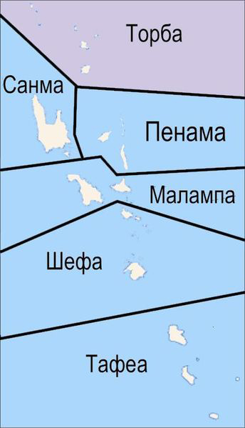 Province of Torba (Vanuatu)